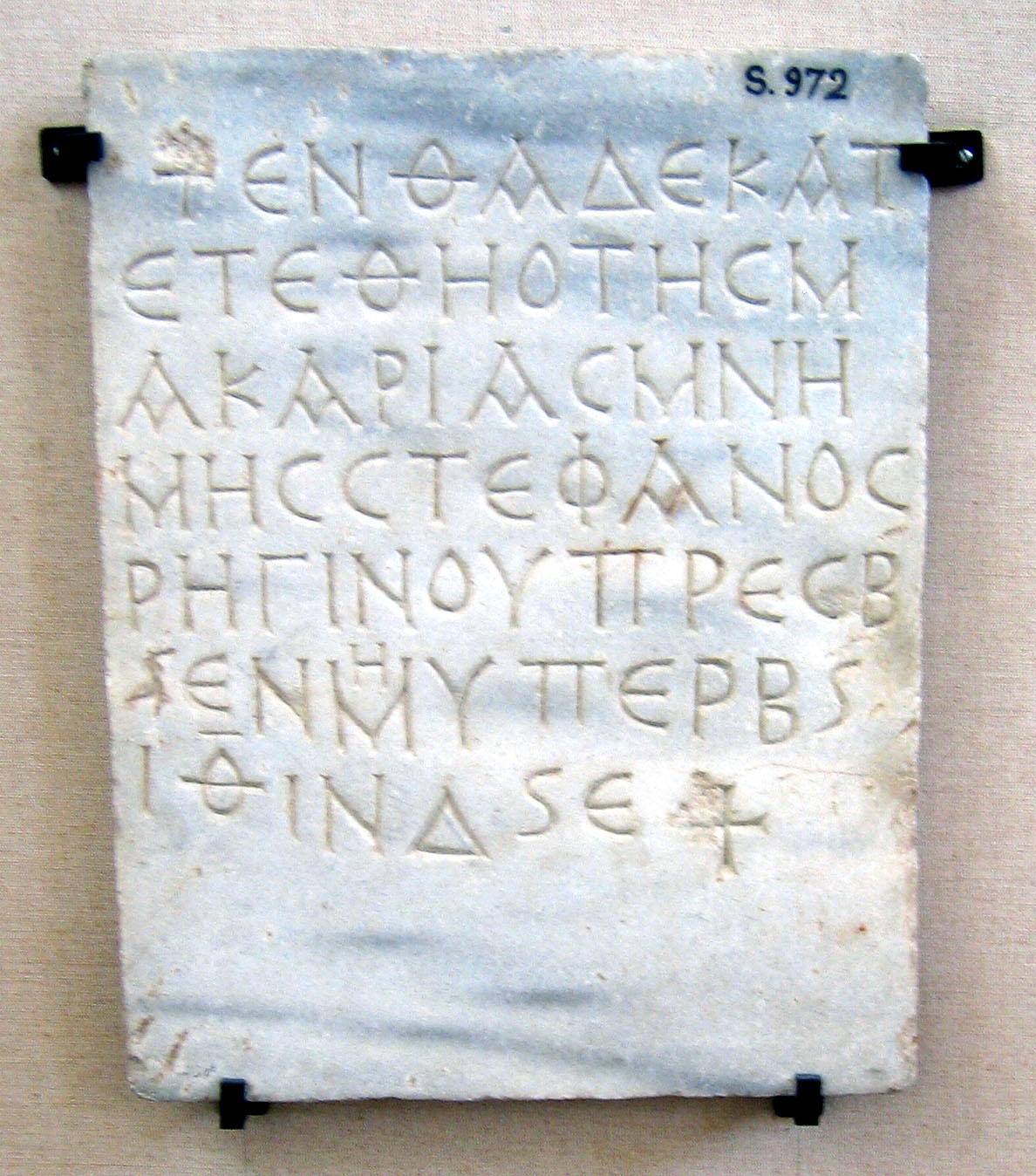 Christian Toombstone Written in Greek: "Here was interned Stephanos of blessed memory, priest, son of Rhgios, on the 19th of the month Hyperberetaios, 5th year of the Indiction". Marble, 6th century C.E. Beersheba district.